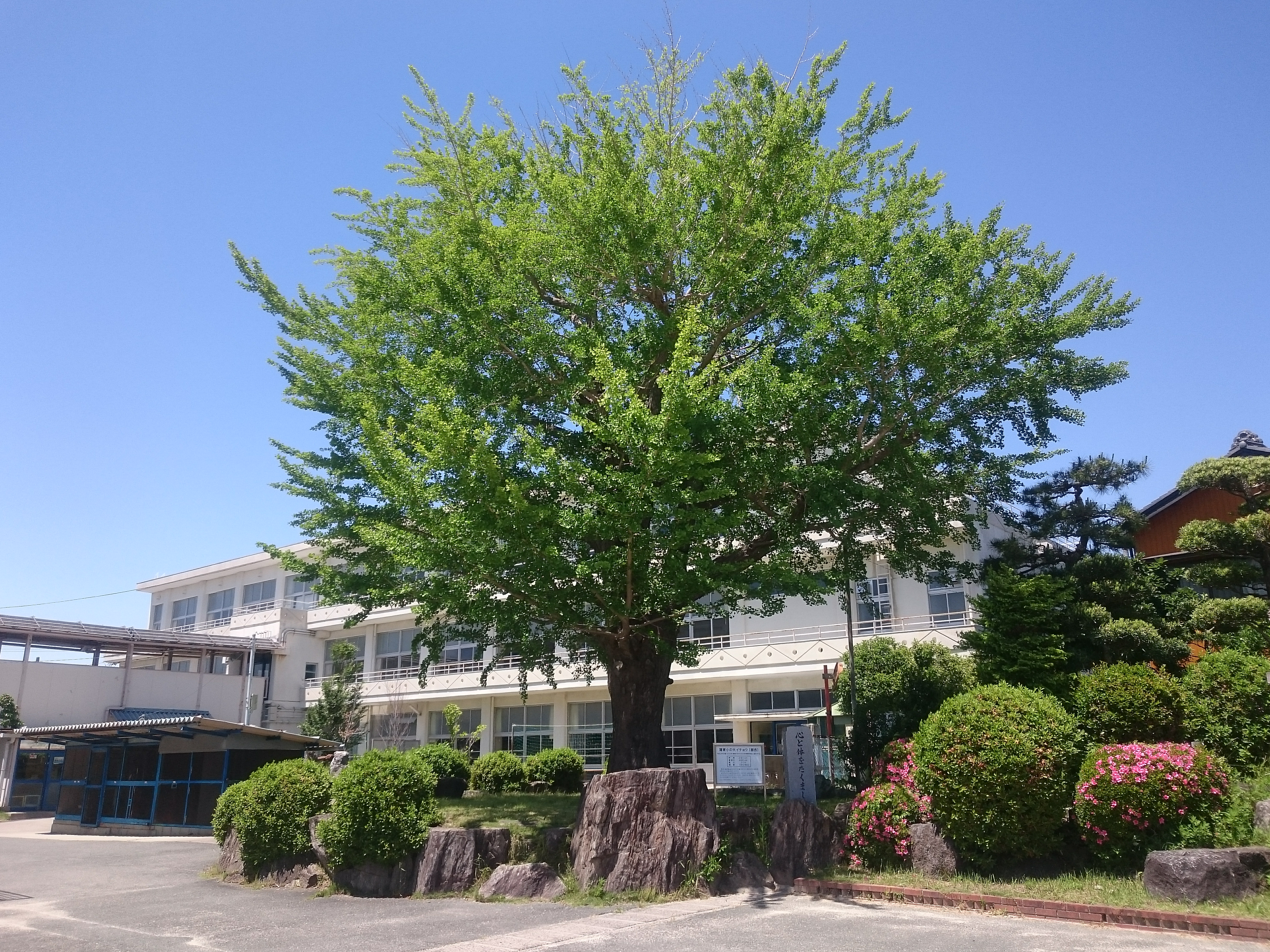 Gamagori City Gamagori Tobu Elementary School (蒲郡市立竹島小学校), located at 3 Ikeda, Toyooka-cho, Gamagori, Aichi, Japan